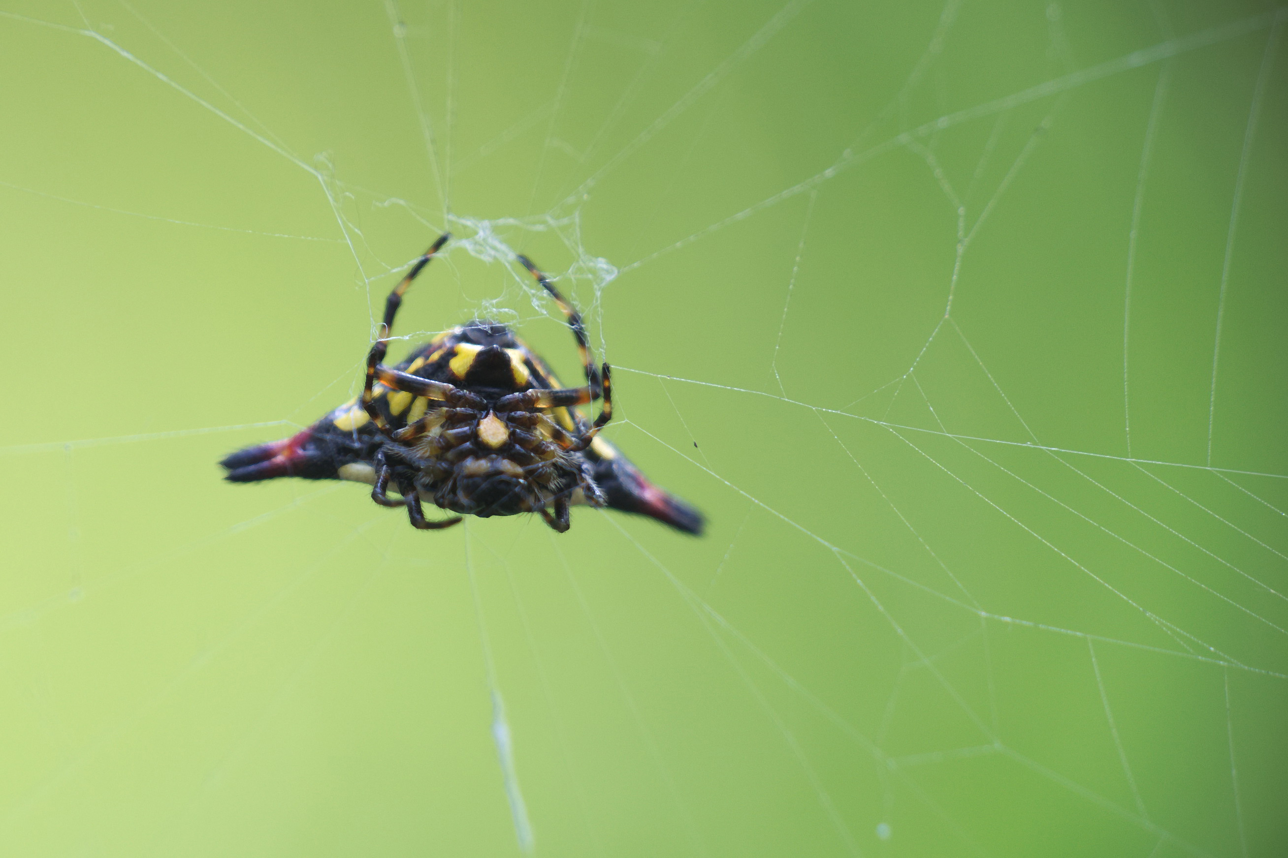 Spiny orb-weavers is a common name for Gasteracantha, a genus of spiders. They are also commonly called Spiny-backed orb-weavers, due to the prominent spines on their abdomen. Although their shell is shaped like a crab shell with spikes, it is not to be confused with a crab spider. This is Gasteracantha geminata.